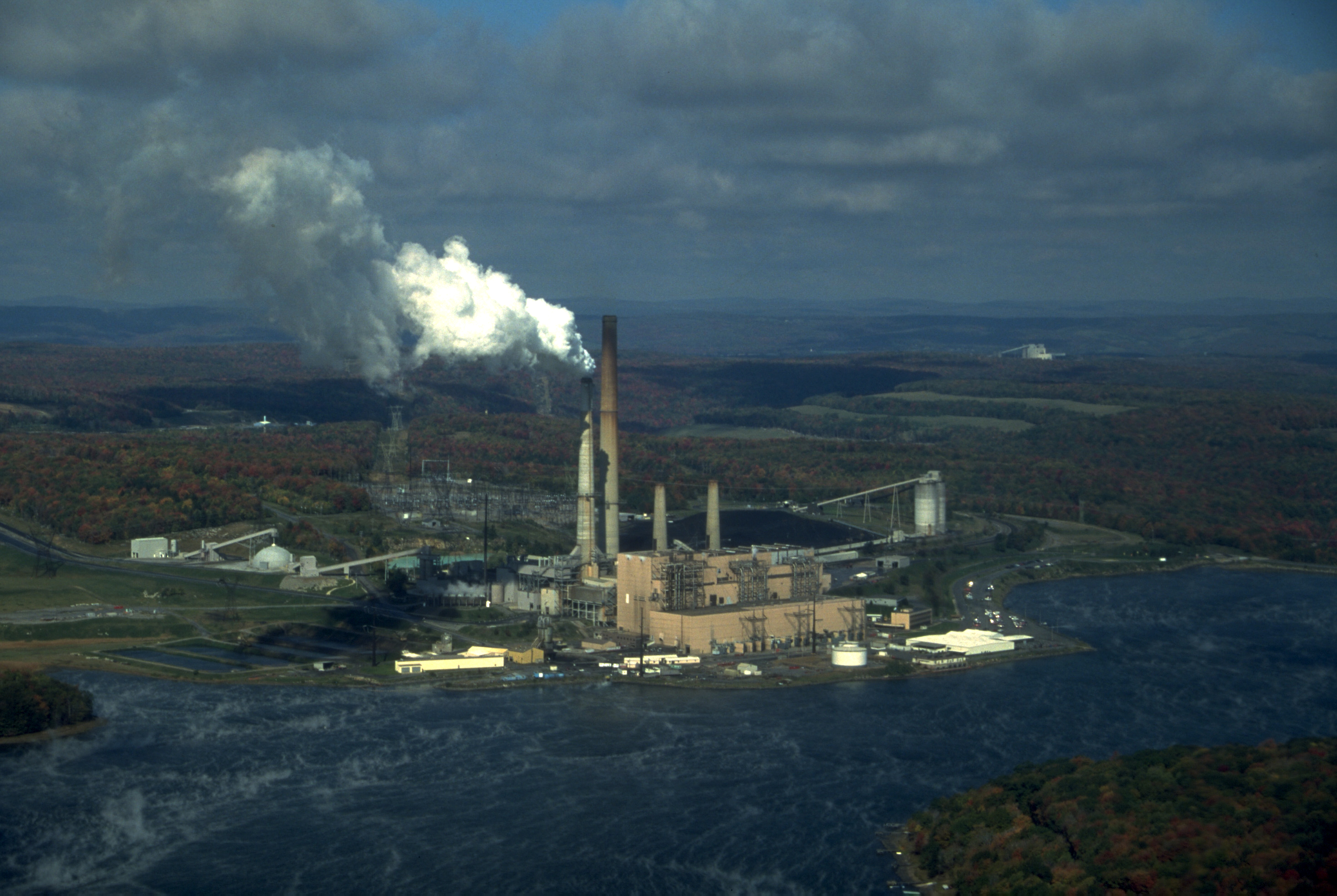 Aerial photograph of the Mount Storm power plant, West Virginia, US